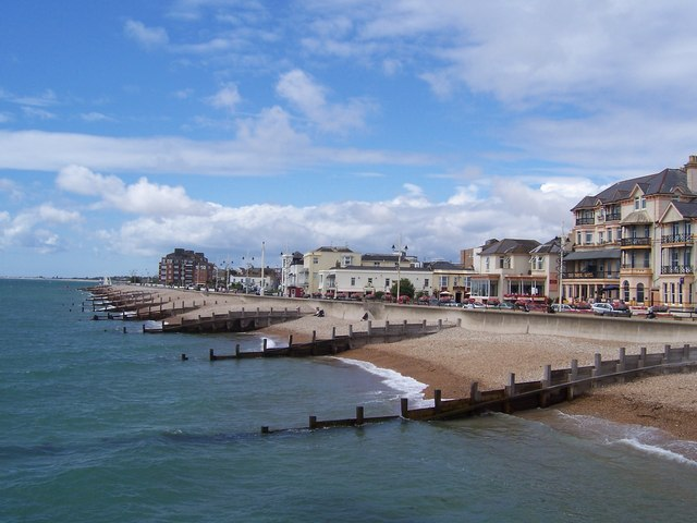 Bognor Regis Taken from the Pier.